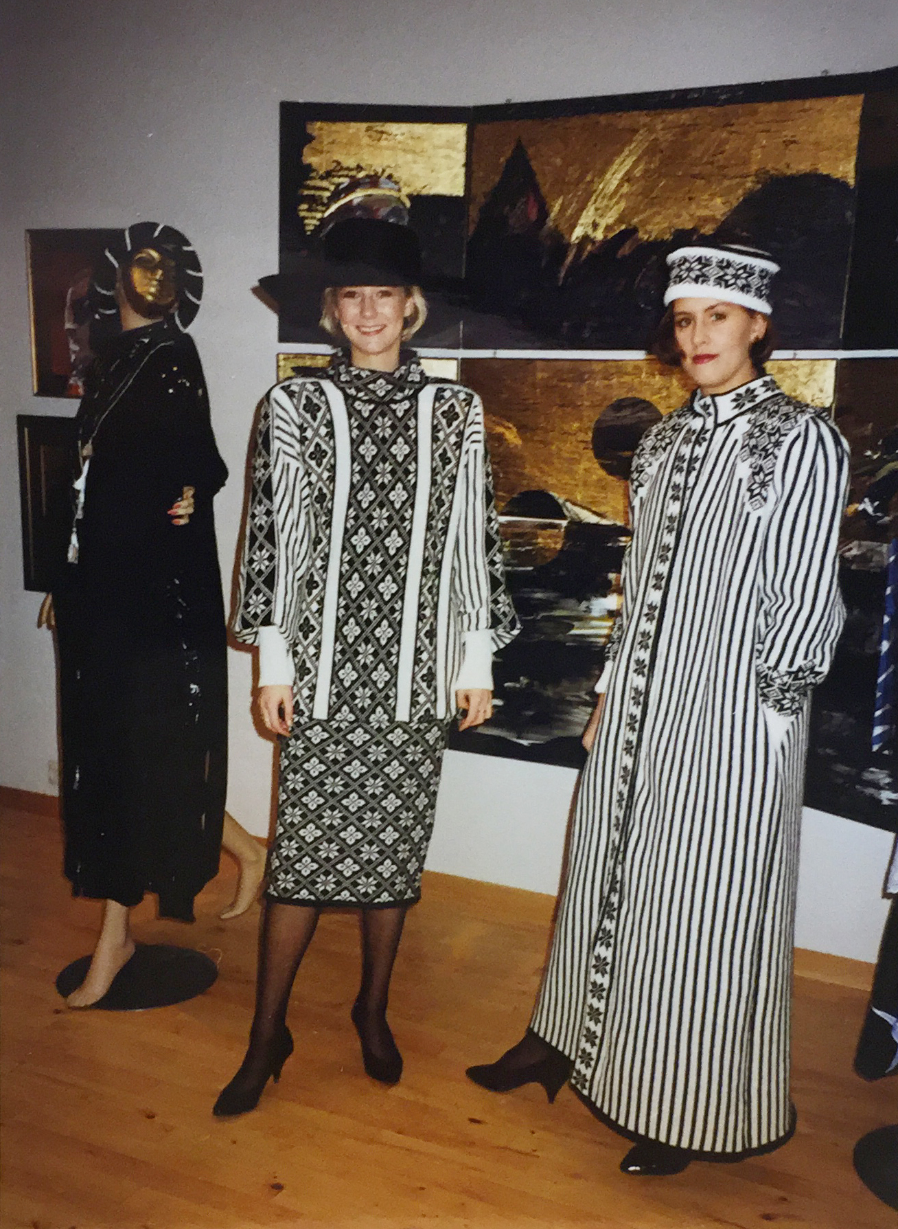 Knitted garments designed by the Norwegian designer Lise Skjåk Bræk for the small business "Budalshjerte"